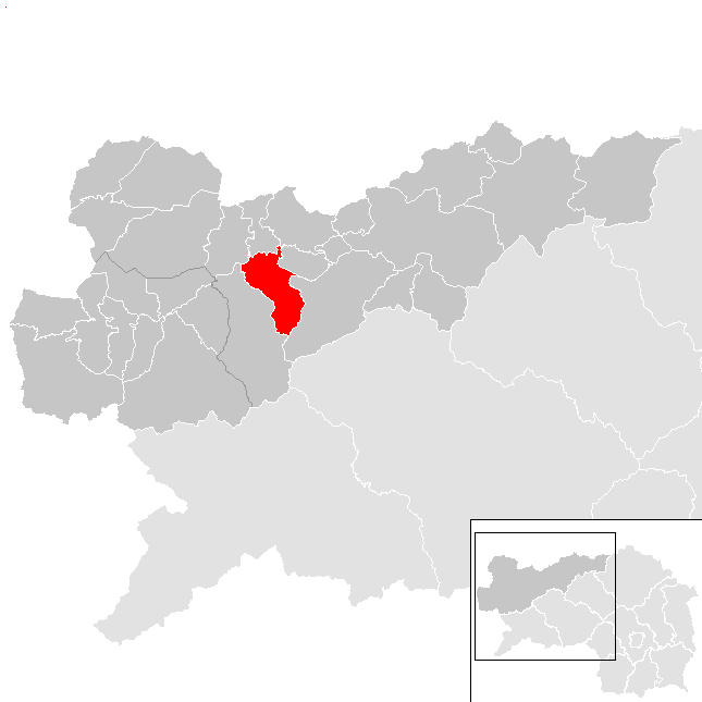 District Leoben